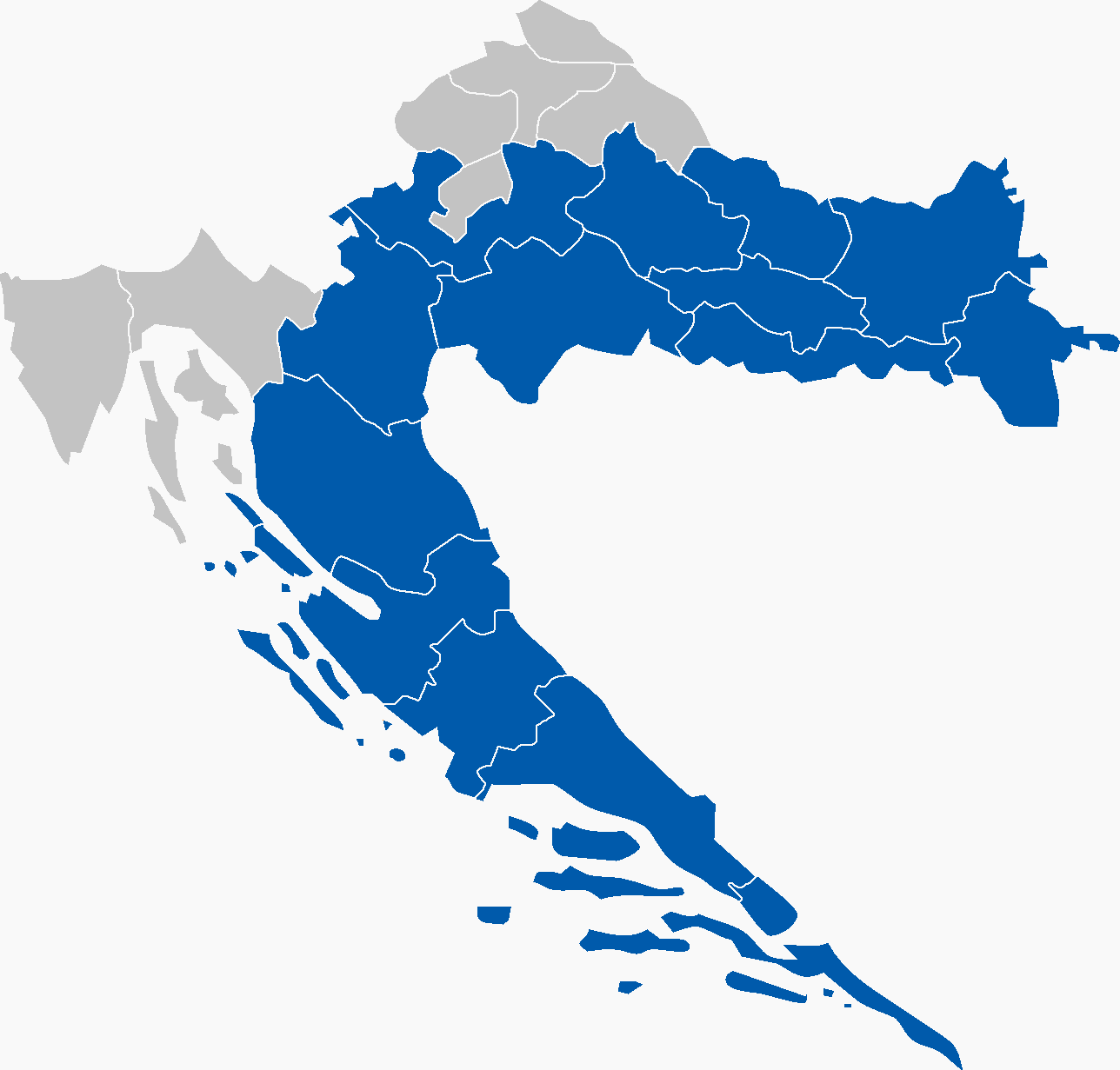 The results of the second round of the Croatian presidential election, 20010-2015